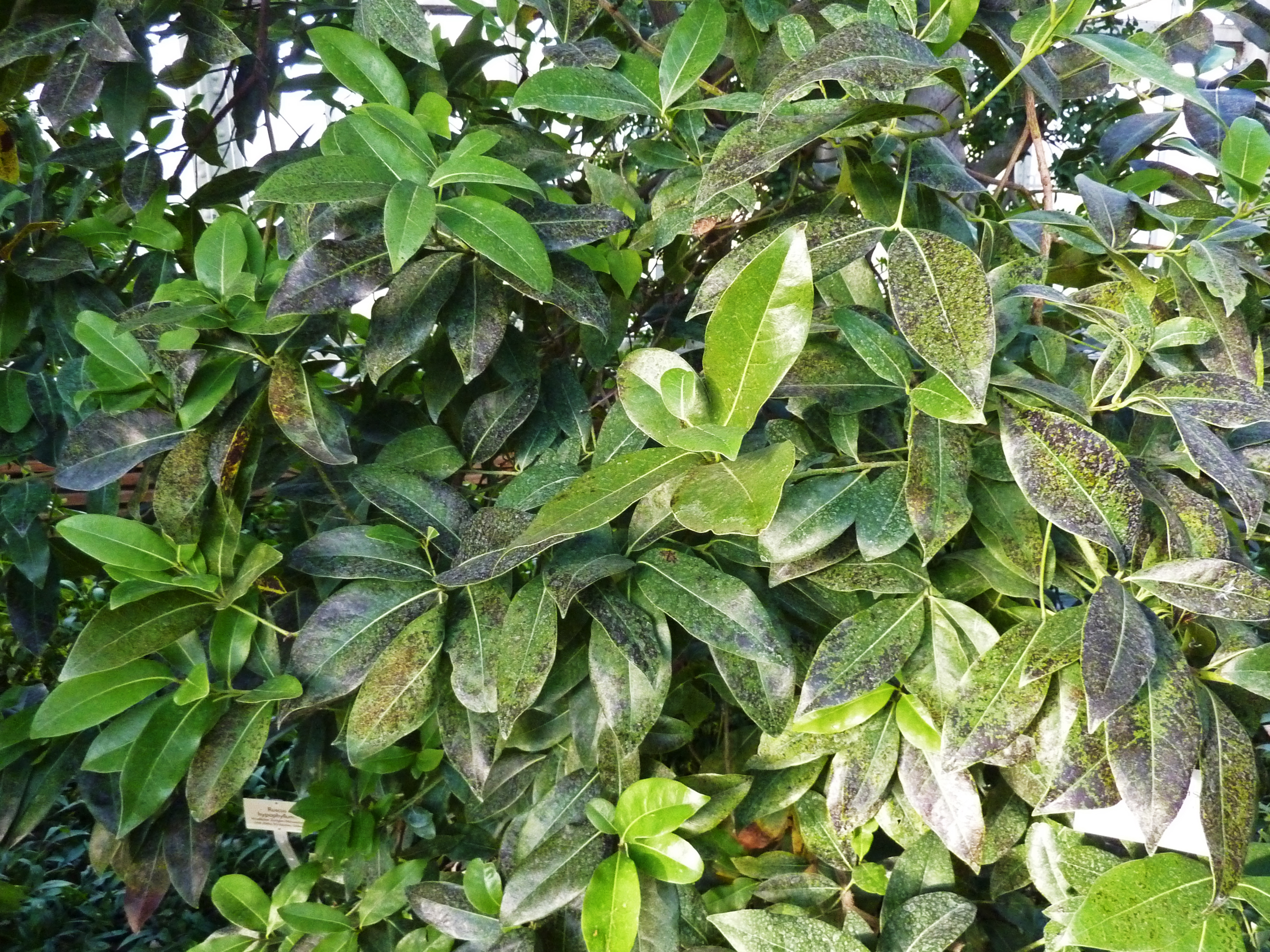 Apollonias barbujana in the Botanical Garden, Berlin. This plant is native to the Canary Islands and Madeira.